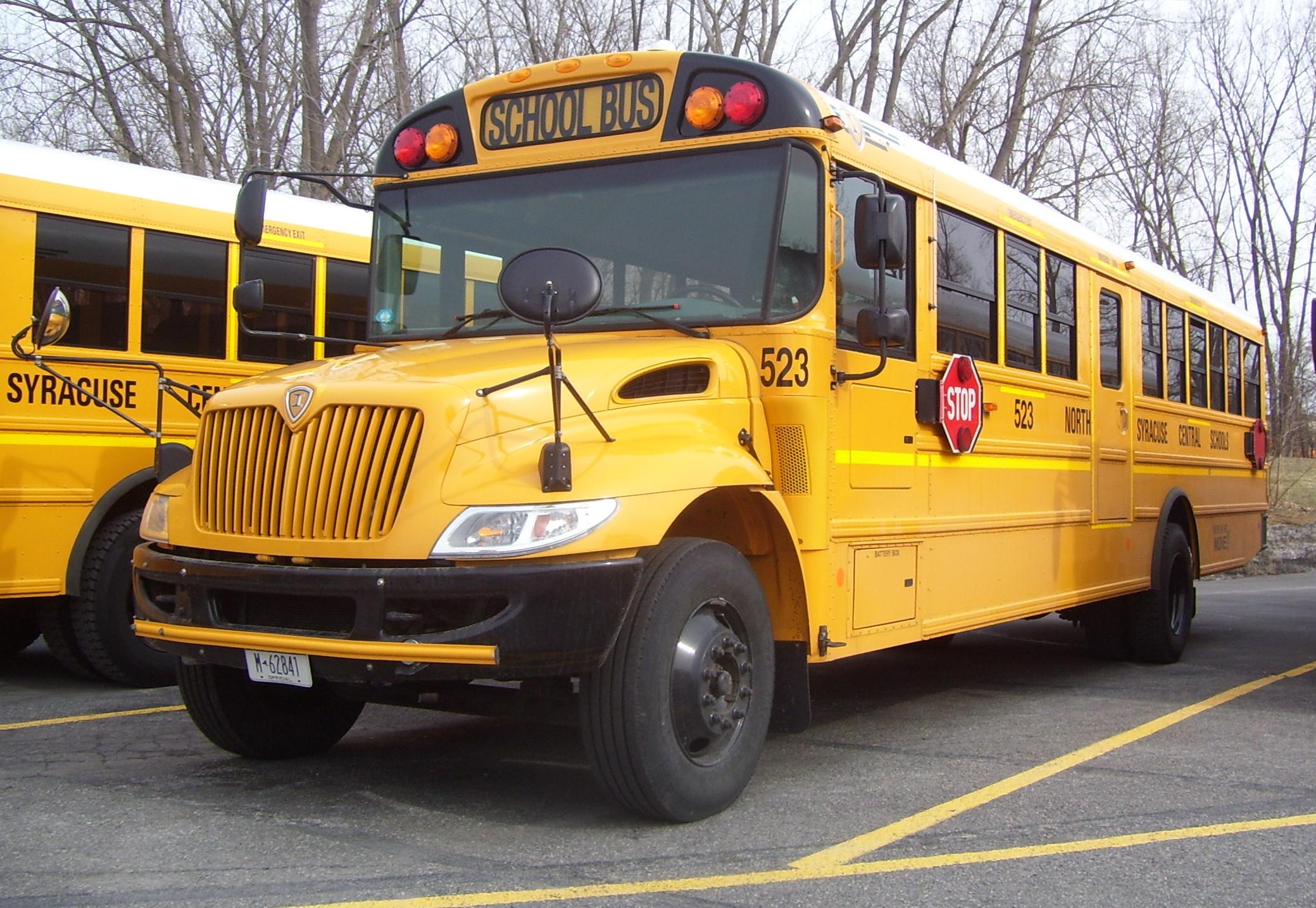 A 2011 IC CE School Bus owned by the North Syracuse School District of Central New York